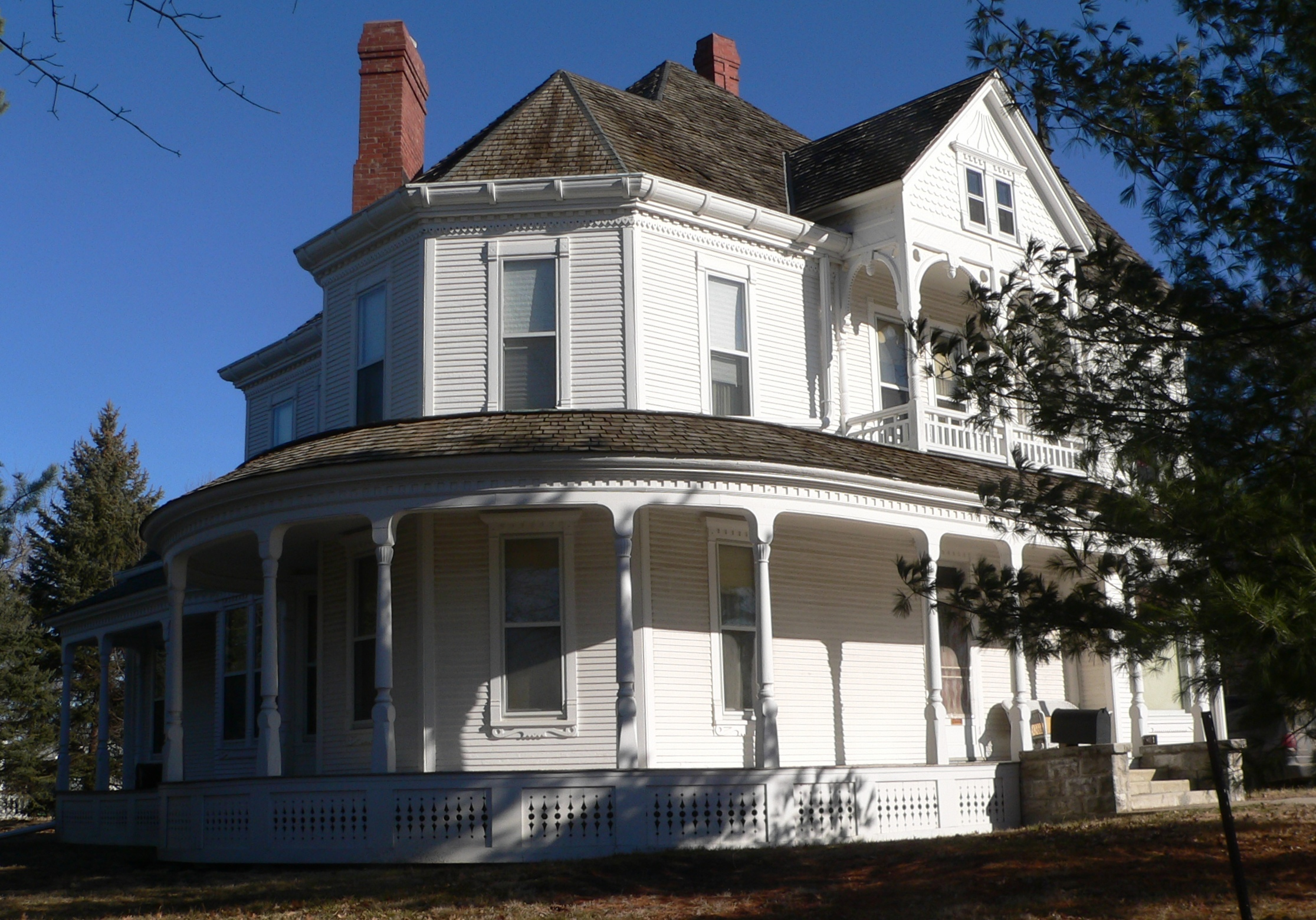 James A. Beattie house, located at 6706 Colby Street in Lincoln, Nebraska; seen from the southwest.